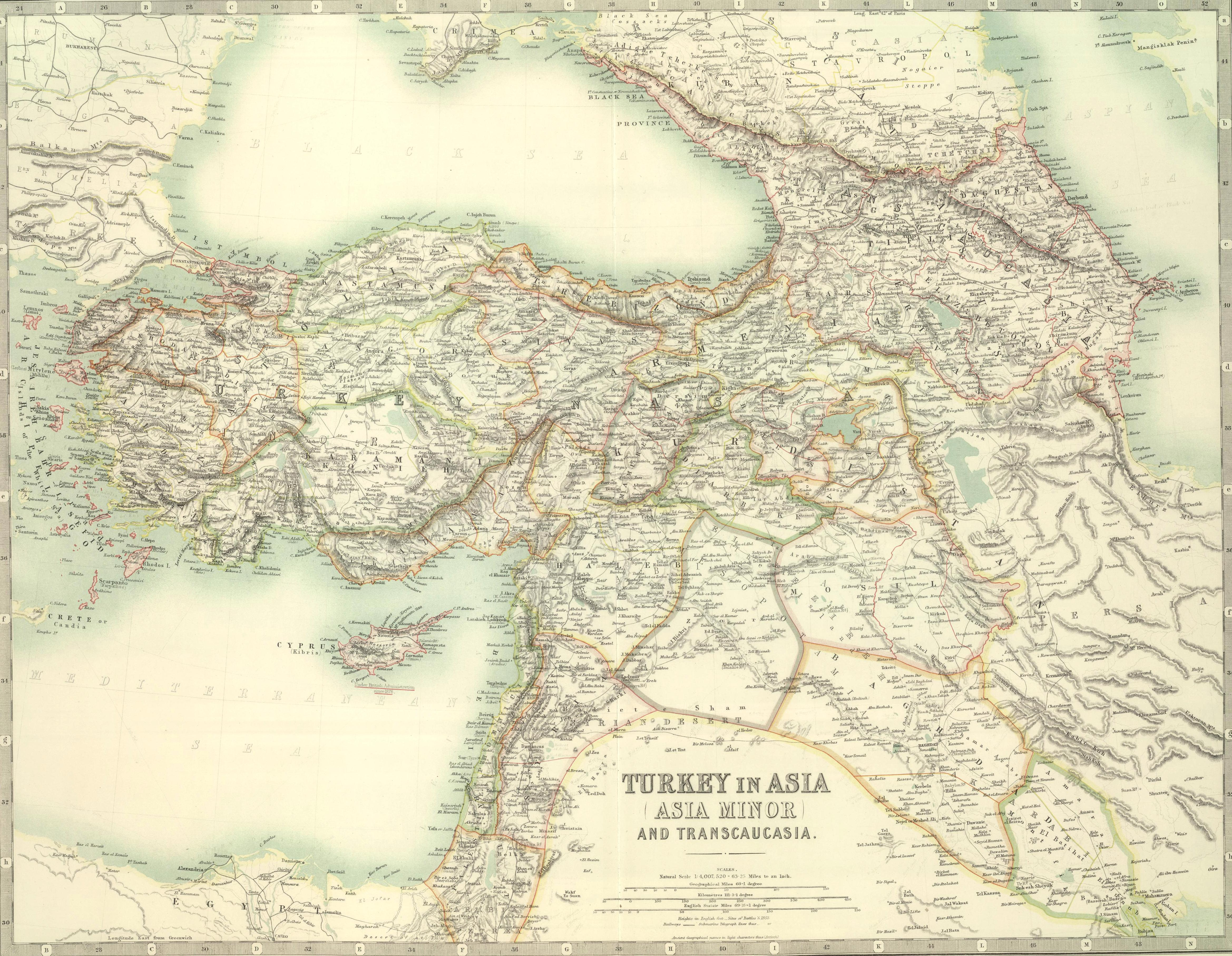 Turkey in Asia (Asia Minor) and Transcaucasia. Keith Johnston's General Atlas. Oct. 1911. Engraved, Printed, and Published by W. & A.K. Johnston, Limited, Edinburgh & London